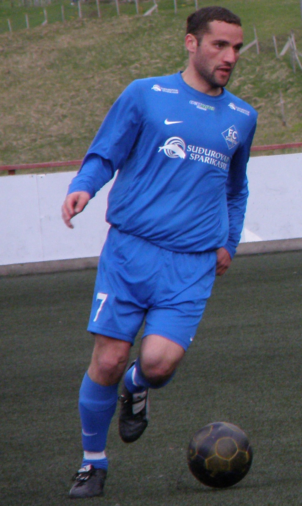 Mamuka Toronjadze is a football player from Georgia. In 2010 he was playing for FC Suðuroy in the Faroe Islands. He plays as a midfielder. This photo was taken on 29 May 2010 when FC Suðuroy was playing against HB Tórshavn, the result was 0-3 (HB Tórshavn won). In 2011 Toronjadze was playing for NSÍ Runavík from the Faroe Islands. Føroyskt: Mamuka Toronjadze er ein miðvalla fótbóltsleikari frá Georgia. Í 2010 flutti hann til Føroya fyri at spæla fyri FC Suðuroy. Henda myndin er tikin 29. mai 2010 frá Vodafonedystinum millum FC Suðuroy og HB, úrslitið gjørdist 0-3 (HB vann). Fyrri dysturin millum hesi bæði liðini endaði javnur 4-4. Í 2011 leikti Mamuka fyri NSÍ.